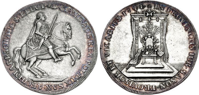 GERMANY, Sachsen-Albertinische Linie. Friedrich August II. Elector, 1733-1763. AR Taler (42mm, 25.99 g, 12h). Commemorating the death of Holy Roman Emperor Karl VI. Dresden mint. Dated 1741. * D • G • FRID • AUG • REX POL • DUX SAX • ARCHIMARESCHALL • & ELECT •, armored elector on rearing horse right, holding sword / * IN PROVINCIIS IUR • SAXON • PROVISOR ET VICARIUS • 1741 •, elaborately decorated empty throne, crown and scepter on seat. Schnee 1032; Davenport 2669. EF, lightly toned.